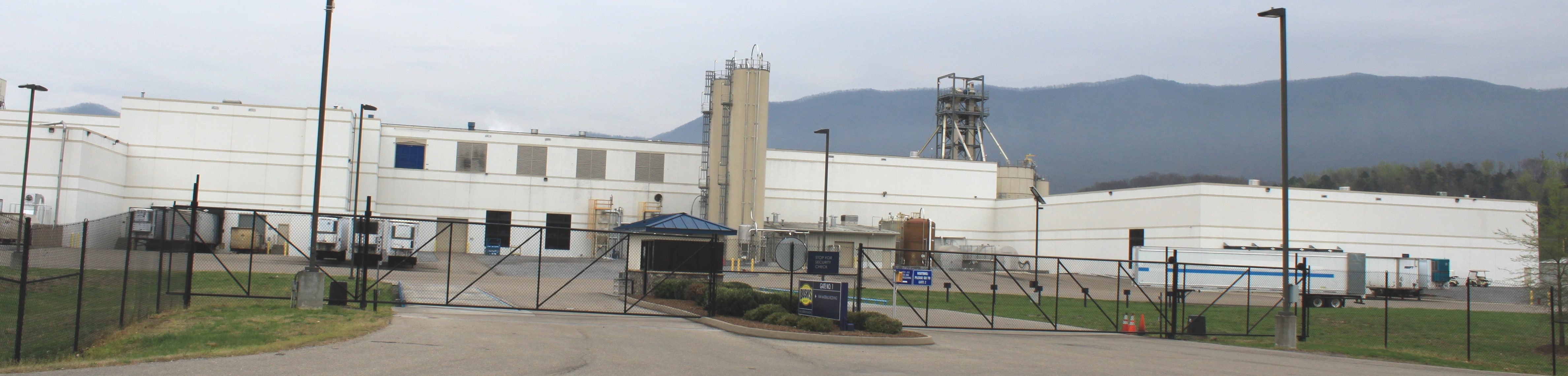 Bush Brothers cannery, Chestnut Hill, Tennessee